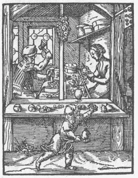 Historical Profession